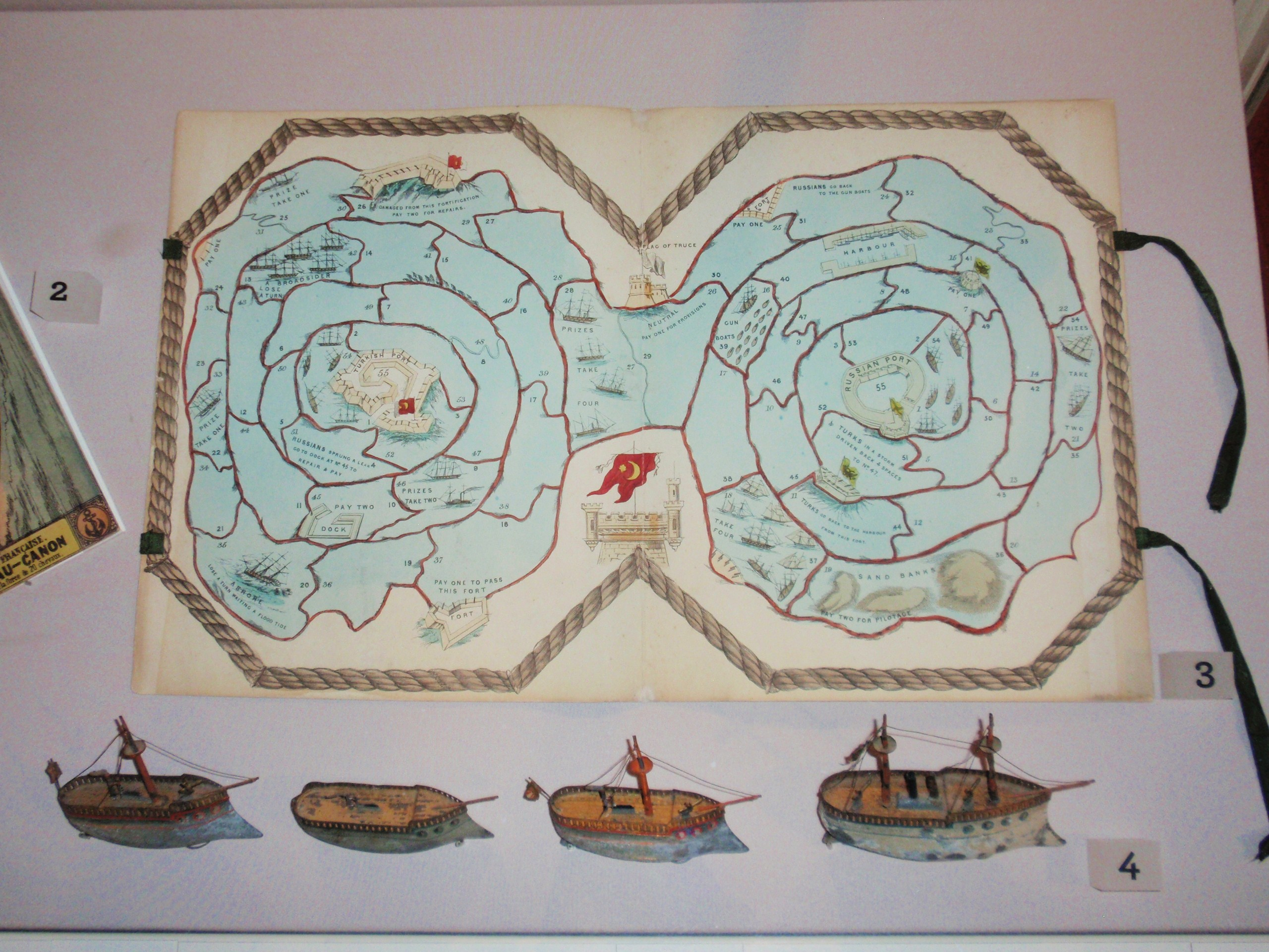 game from Crimean war period